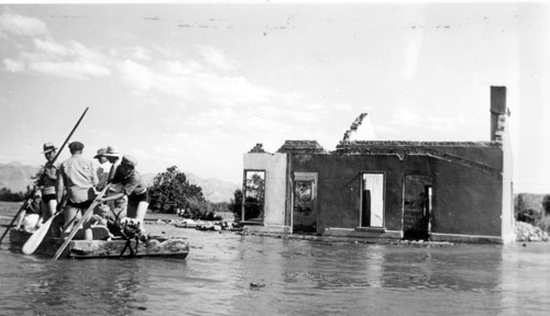 A salvage crew rafts through the town of St. Thomas near the ruins of a building as Lake Mead begins to submerge it in June 1938.